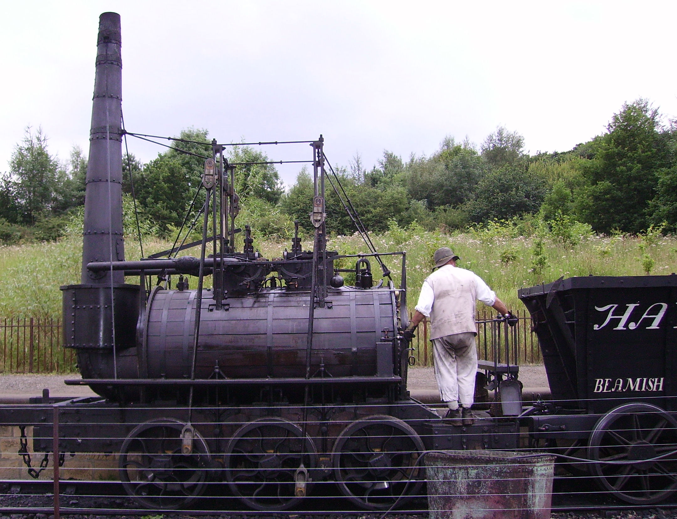 Beamish Museum, County Durham, England. Steam Elephant stands in the platform on the Pockerley Waggonway (seen from the non-platform (Great Shed yard) side, to the north).